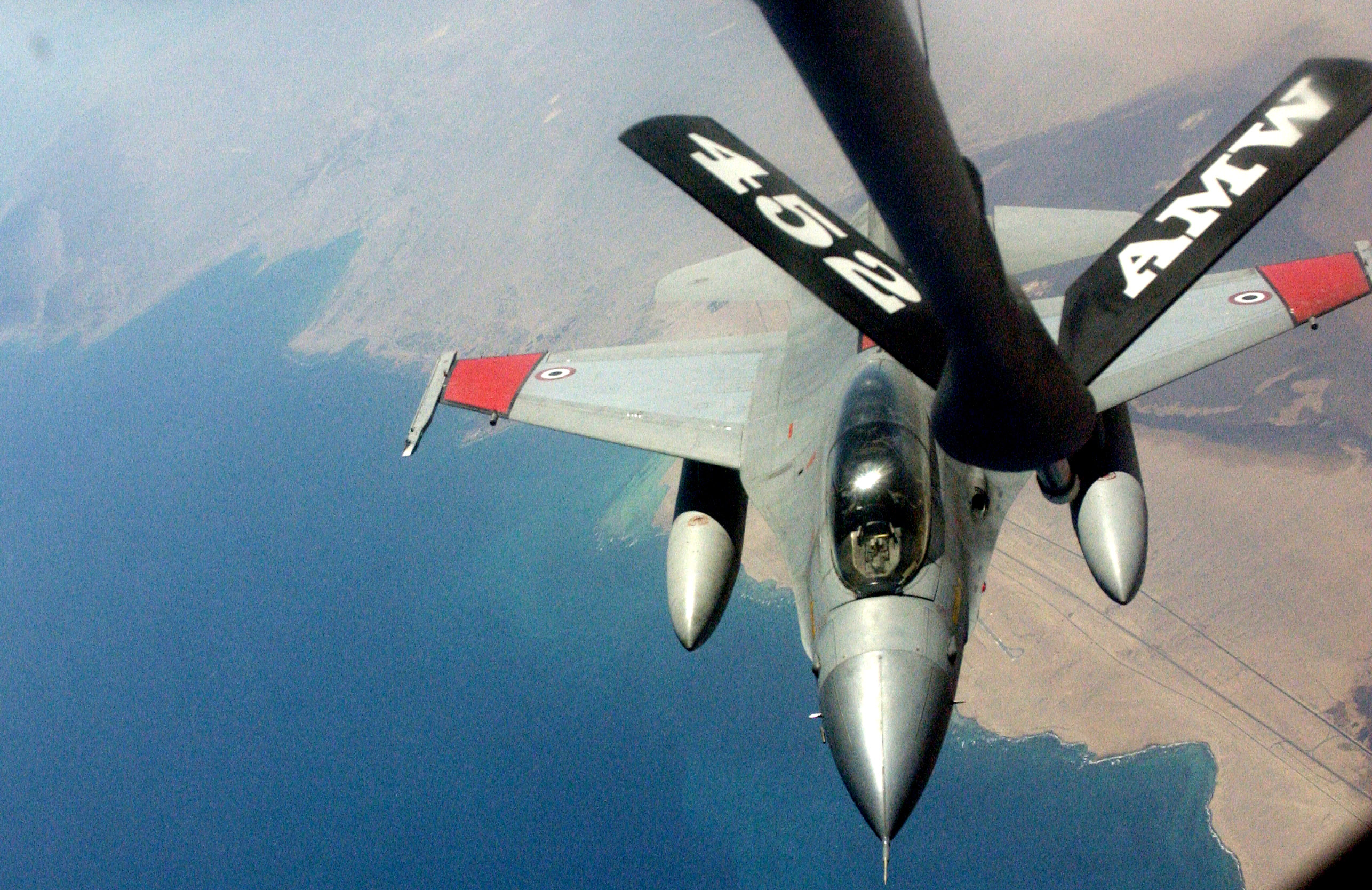 An Egyptian air force F-16 Fighting Falcon prepares to make contact with a KC-135 Stratotanker from March Air Reserve Base, Calif., during inflight refueling training. A contingent of reservists from the 336th Air Refueling Squadron at March ARB are providing aerial refueling training for Egyptian pilots.